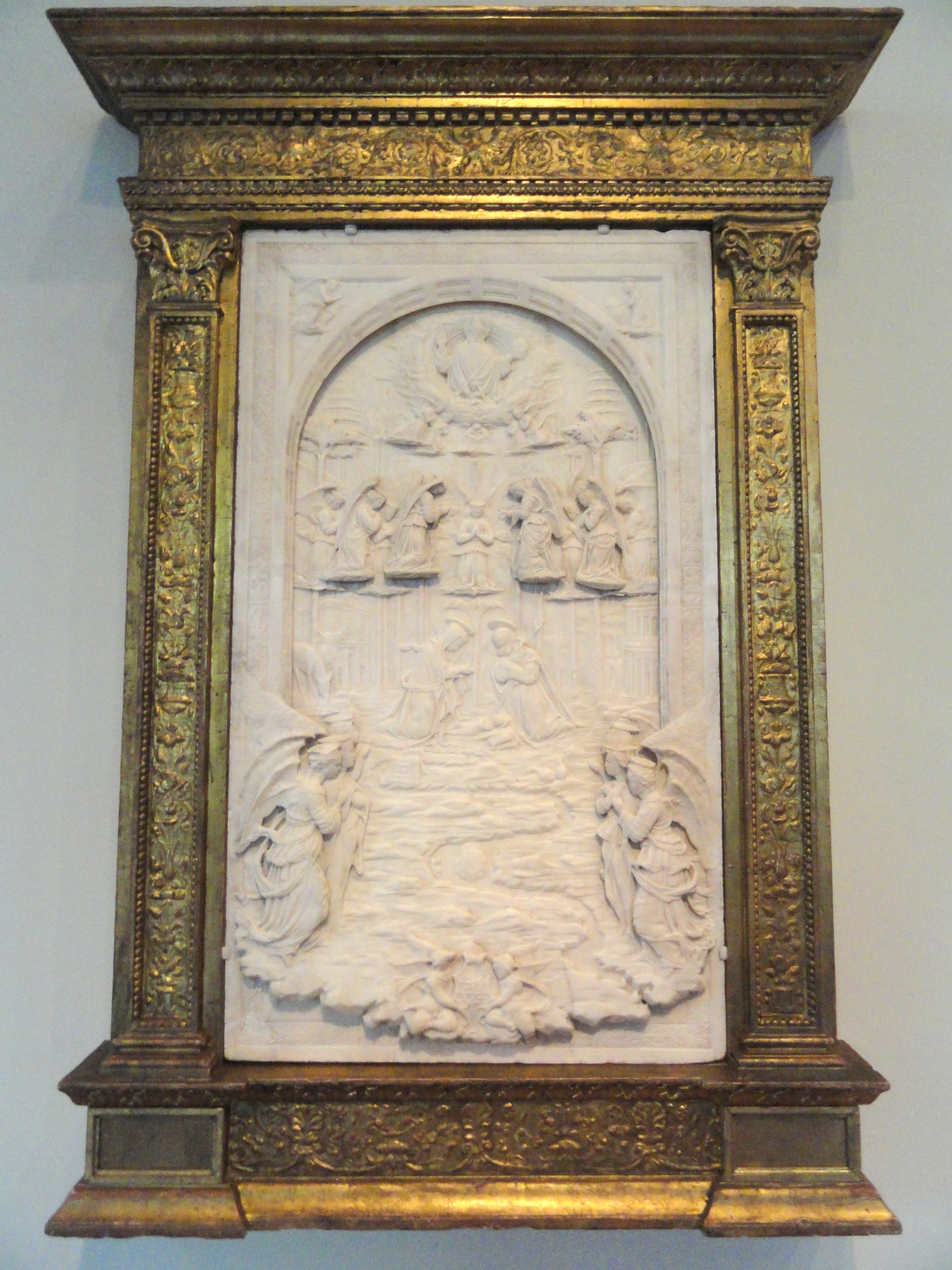 The Nativity by Domenico Gagini, c. 1460, marble - National Gallery of Art, Washington, DC, USA. This artwork is old enough so that it is in the public domain.